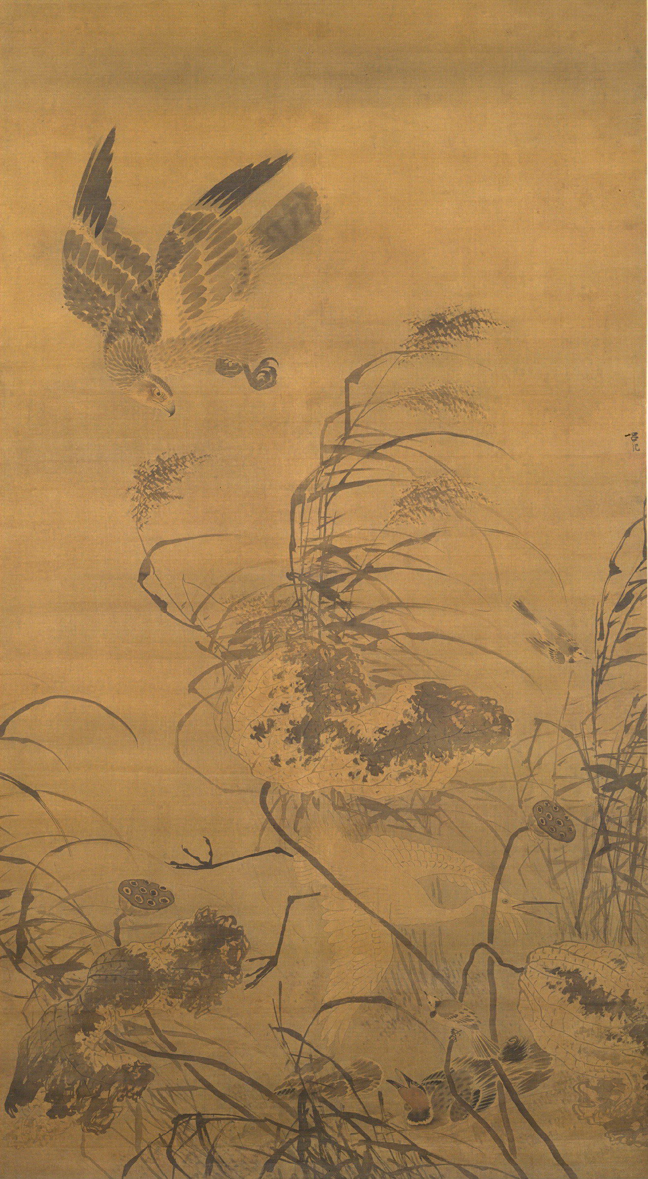 Lü Ji, Egret, Eagle, and the falling Lotus Flowers, 190x105,2cm, Palace Museum, Beijing.